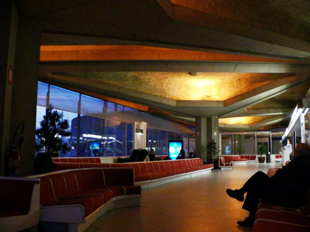 Paris Charles de Gaulle International Airport Terminal 1 Satellite 7 Boarding Area with 70s Lounge Seating. The circular mainbuilding can be seen behind.